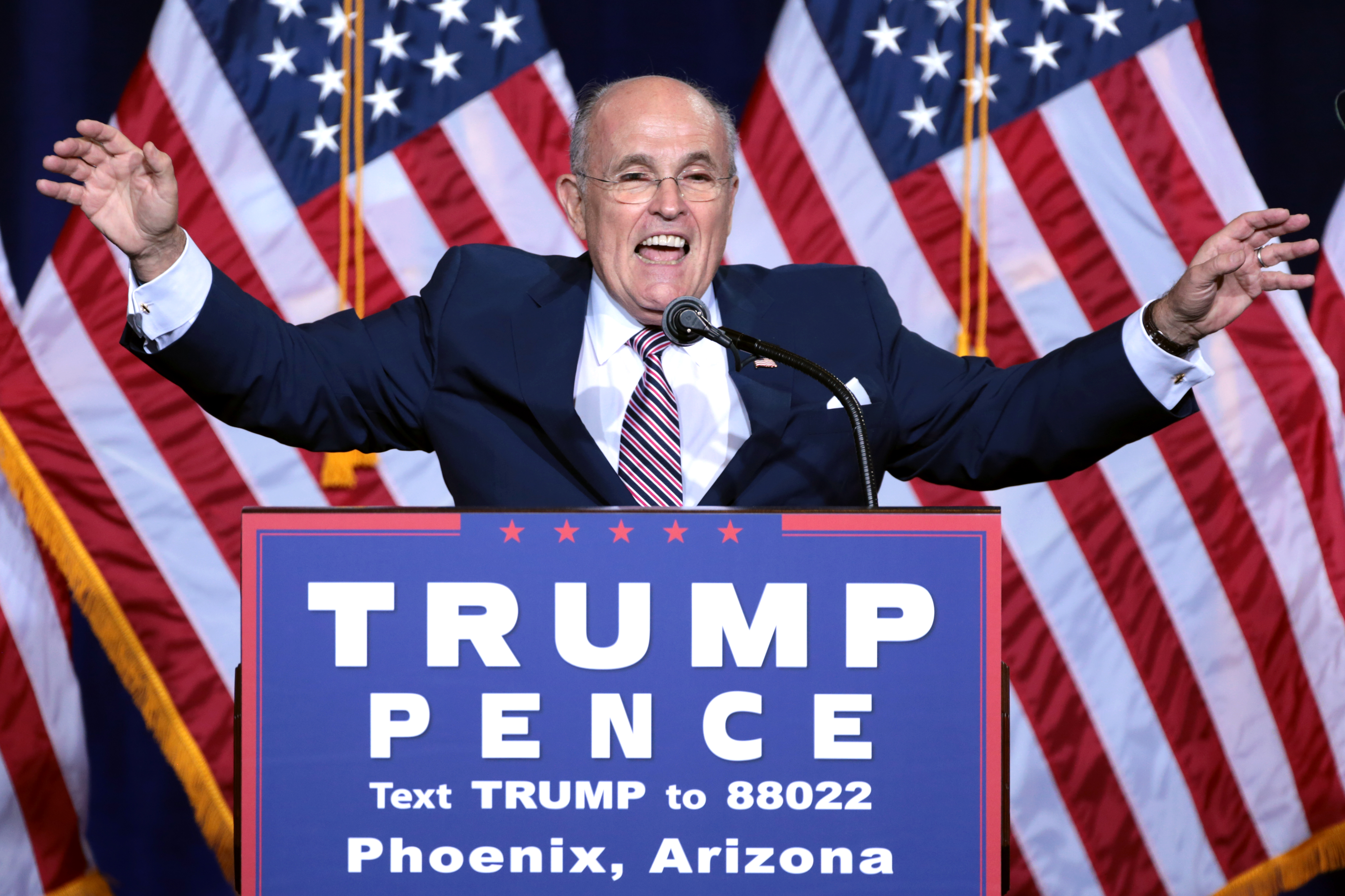 Former Mayor Rudy Giuliani of New York City speaking to supporters at an immigration policy speech hosted by Donald Trump at the Phoenix Convention Center in Phoenix, Arizona.